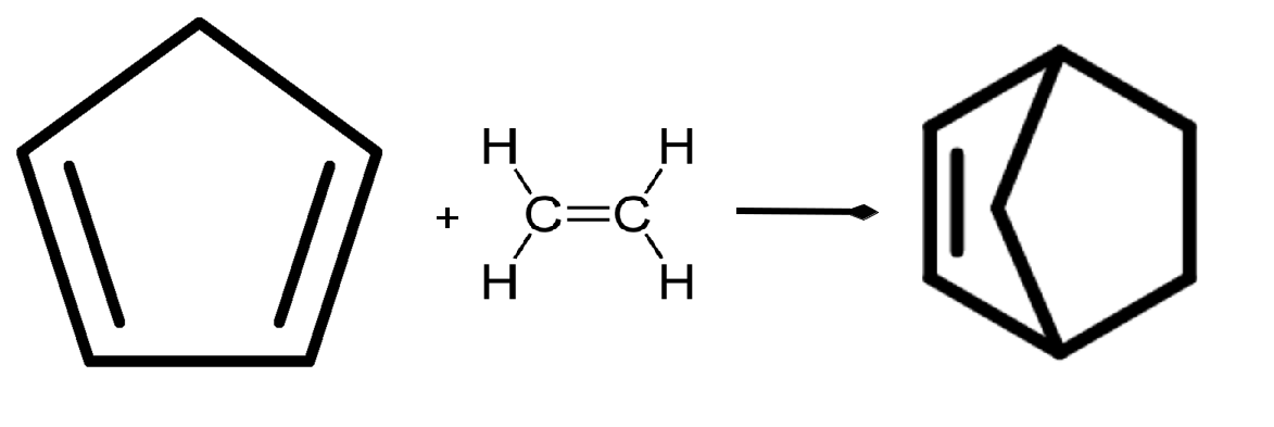 Norbornene syntehesis by Diels-Alder reaction